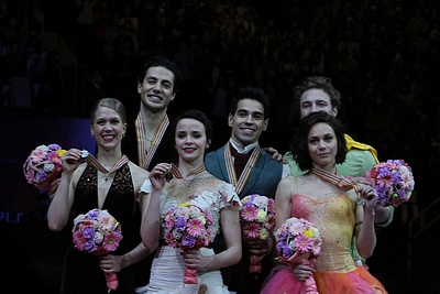 The ice dancing podium at the 2014 World Championships. From left: Kaitlyn Weaver / Andrew Poje (2nd), Anna Cappellini / Luca Lanotte(1st), Nathalie Péchalat / Fabian Bourzat (3rd) .